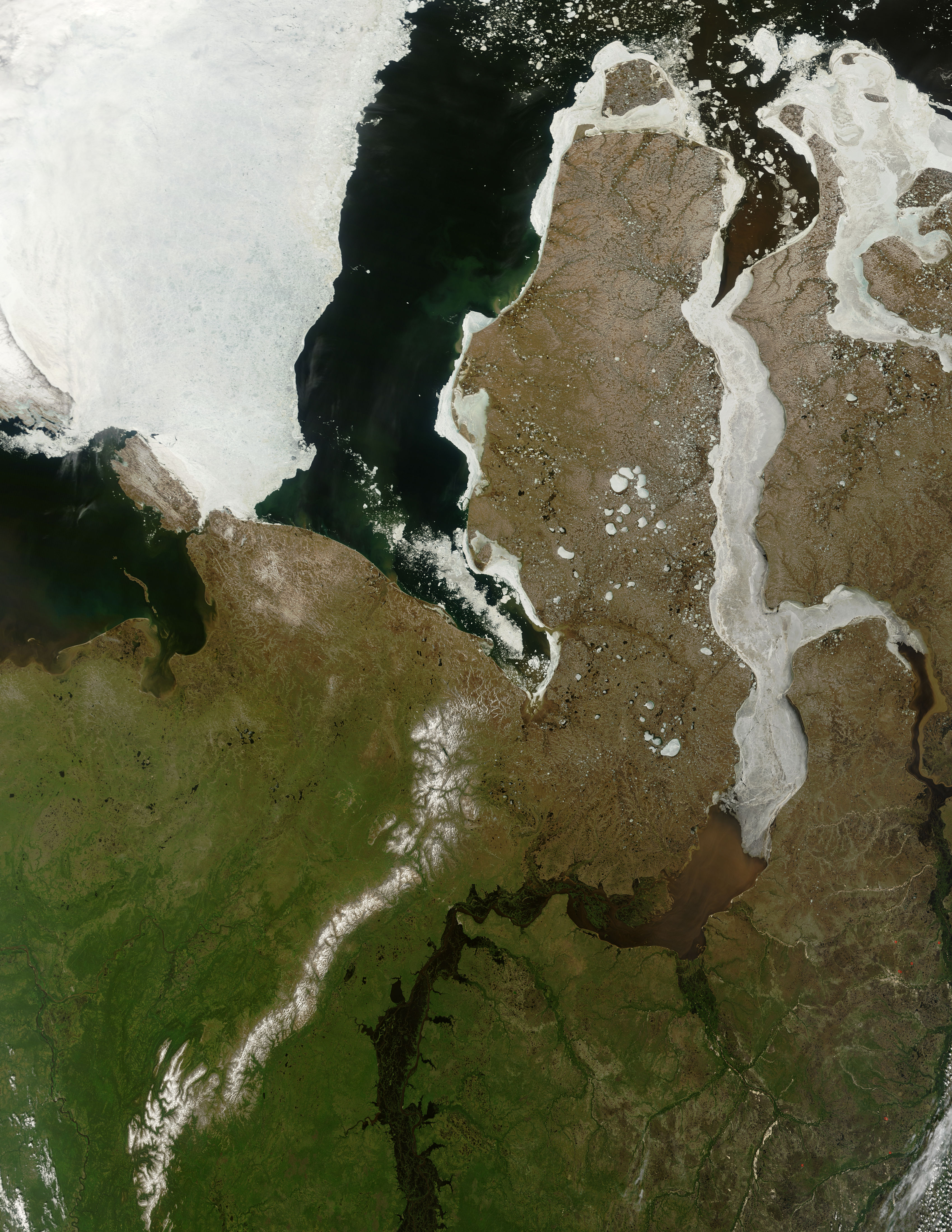 Ice jam in the Gulf of Ob, Yamal Peninsula